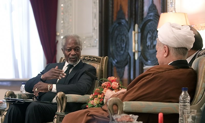 Kofi Annan, former General-Secretary of the United Nations meets with Former Iranian President Akbar Hashemi Rafsanjani in his office in Tehran